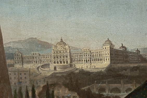 Detail of the "Portrait of John, Prince Regent of Portugal" (1802), by Domingos Sequeira. Pictured is the Palace of Ajuda, as it was originally planned, though the project was never completed.